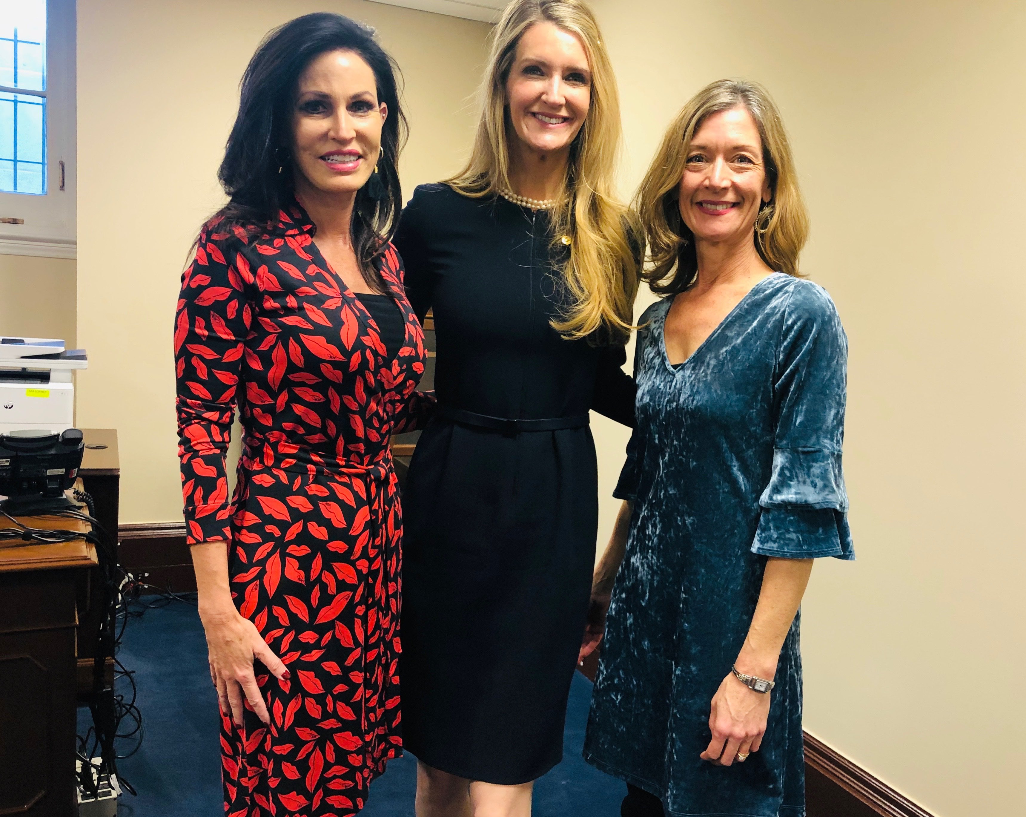 I look forward to partnering with @PYNance and @CWforA on issues important to Georgia women and families! #gapol